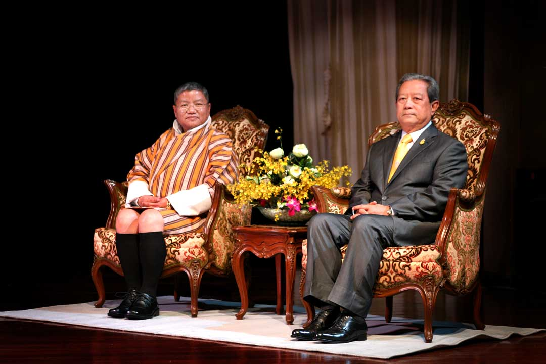 At a meeting in Bangkok... The Prime Minister of Bhutan Kinzang Dorji (left) is wearing the traditional clothing for men, which is a common sight in Bhutan. Former Prime Minister Surayud Chulanont of Thailand is seated on the right.